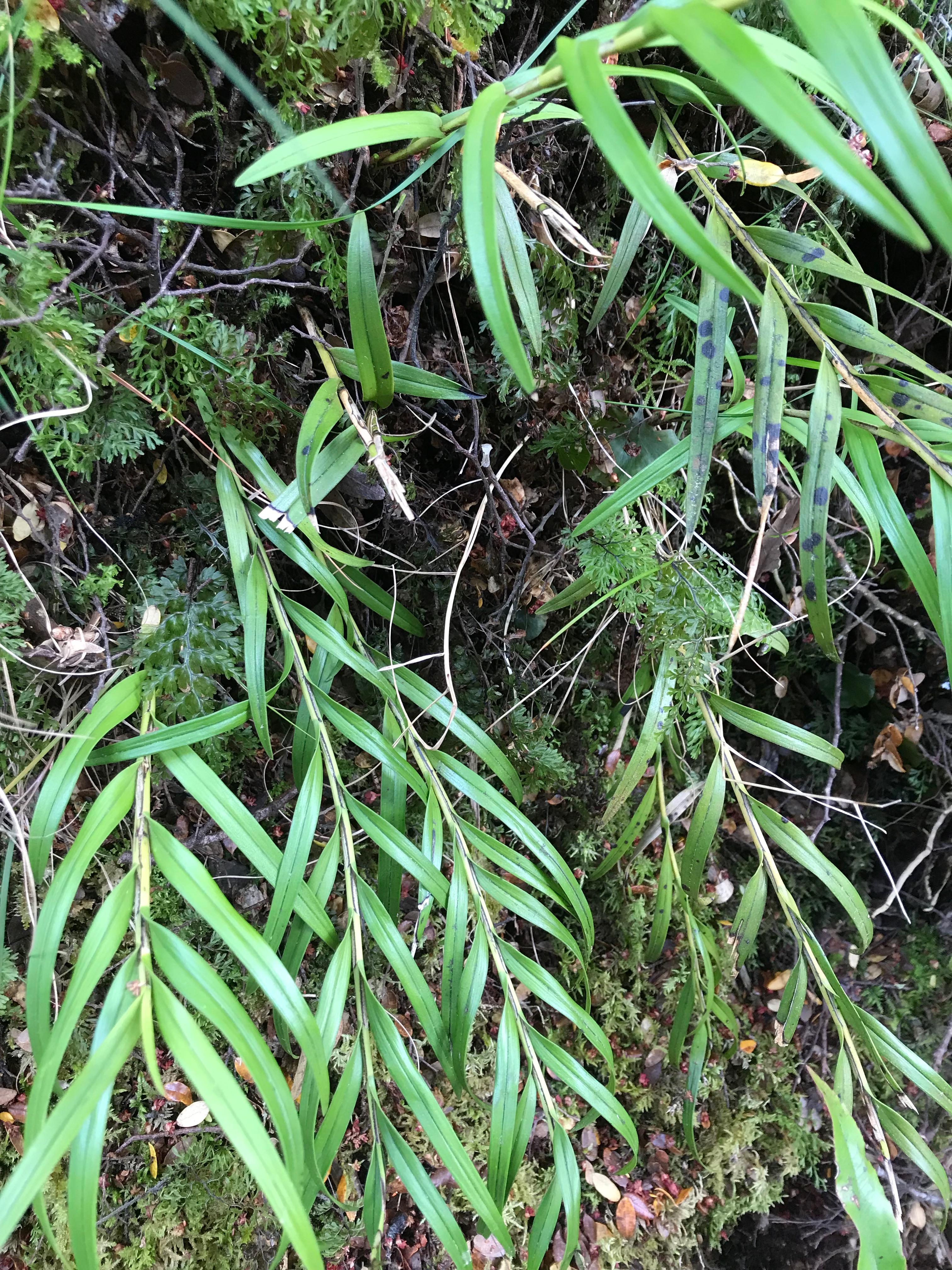 Easter orchid (Earina autumnalis) at Kaitoke Regional Park, New Zealand